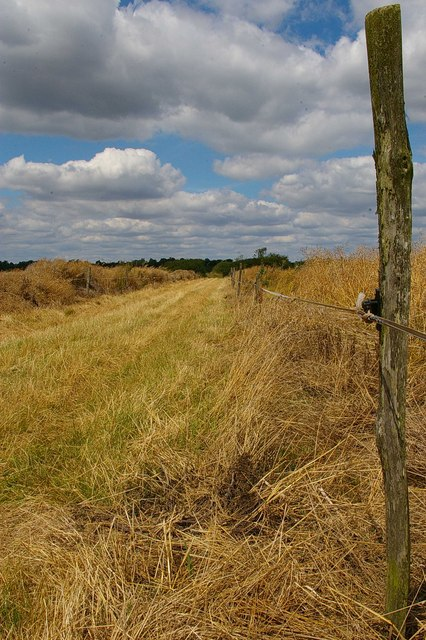 Footpath to Landwick Farm The crop on either side of this footpath in the Dengie Marsh is Oilseed Rape, which is ready to harvest.